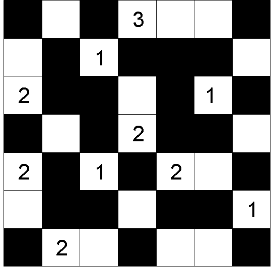 Mochikoro grid solved